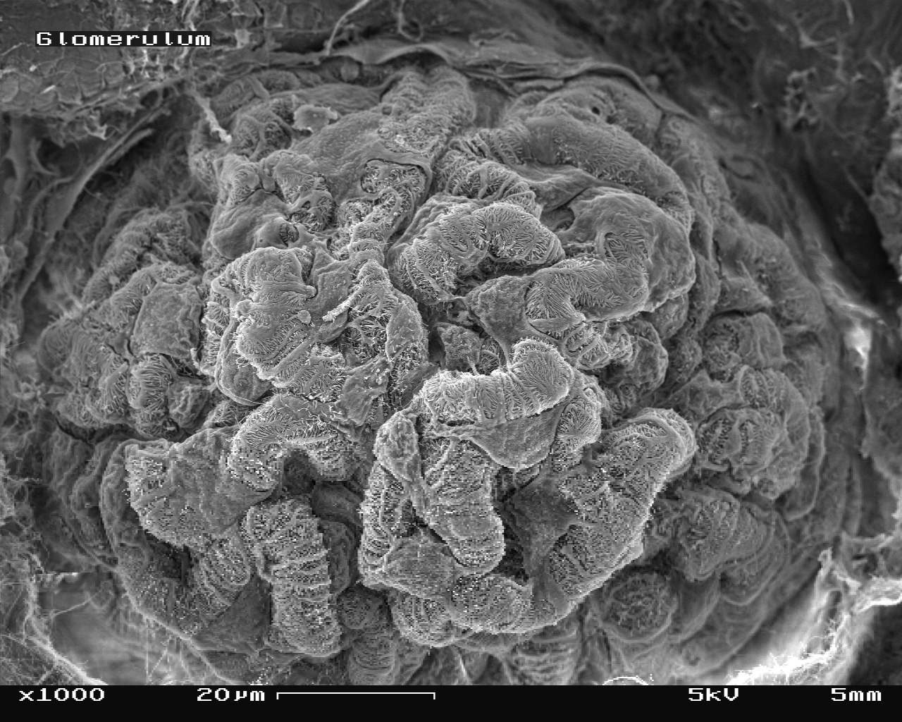 Glomerulum of mouse kidney in Scanning Electron Microscope, magnification 1,000x